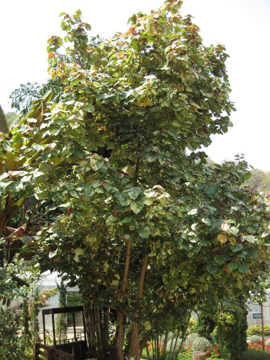 Photographed at the Queen Sirikit Botanic Garden (Chiang Mai Province, Thailand) in March